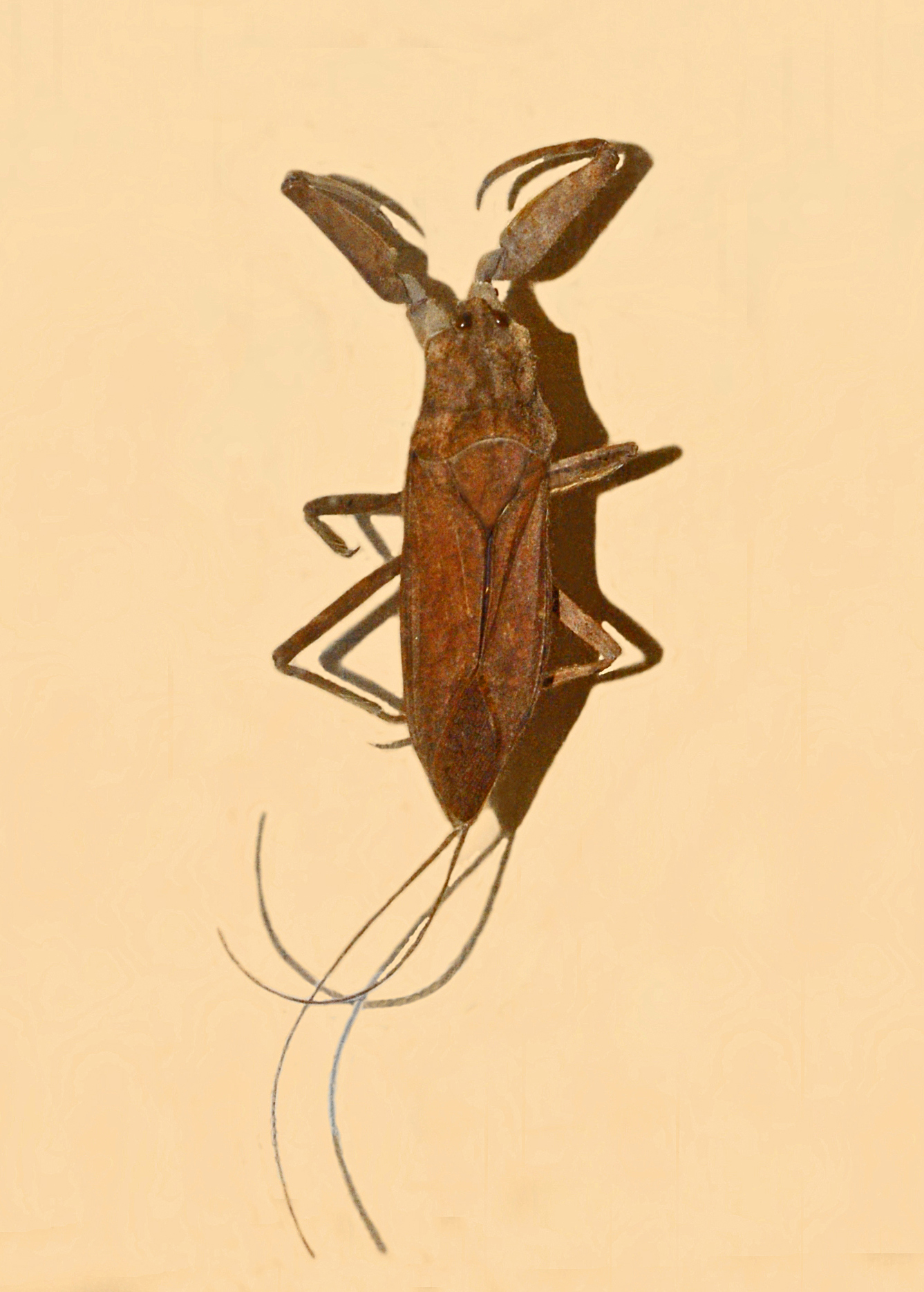 Laccotrephes pfeiferiae from Myanmar. Museum specimen